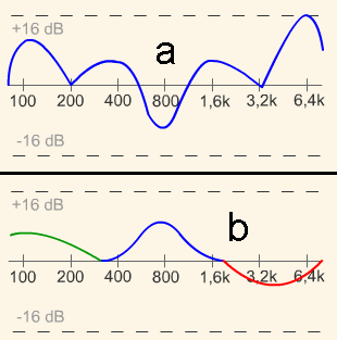 Main differences between 7-band equalizer and 3 band equalizer